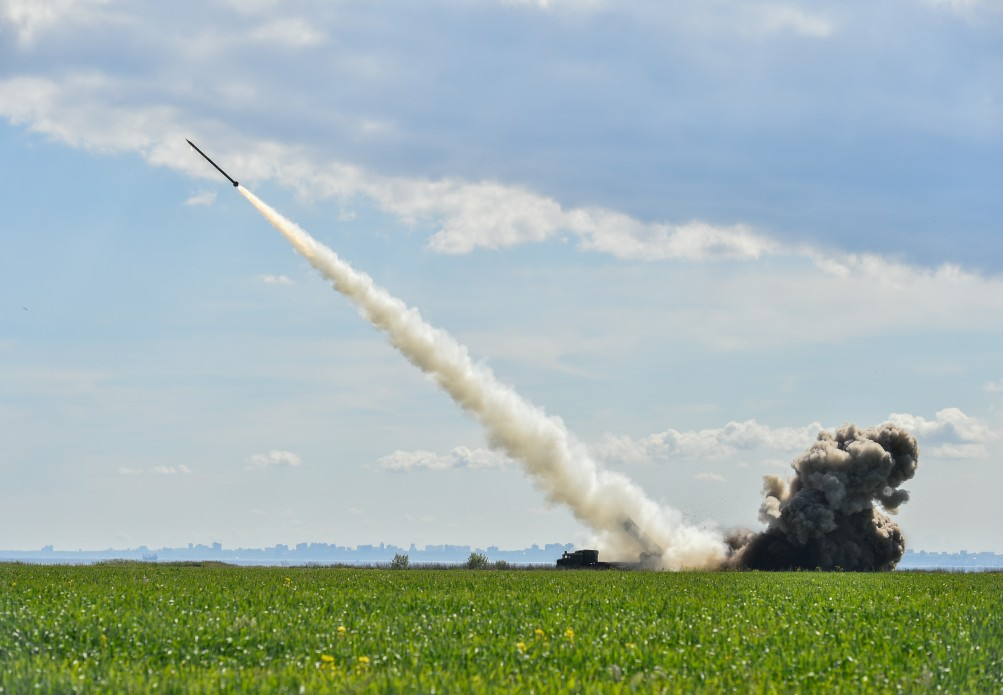 Vilkha MLRS tests (Ukraine)